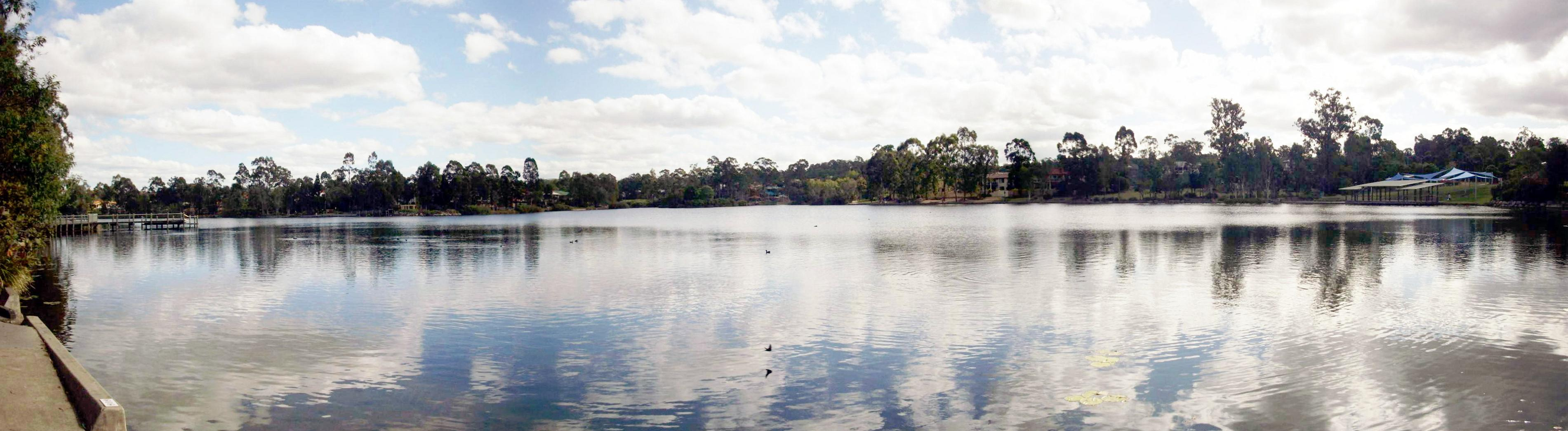 Forest Lake, Queensland.